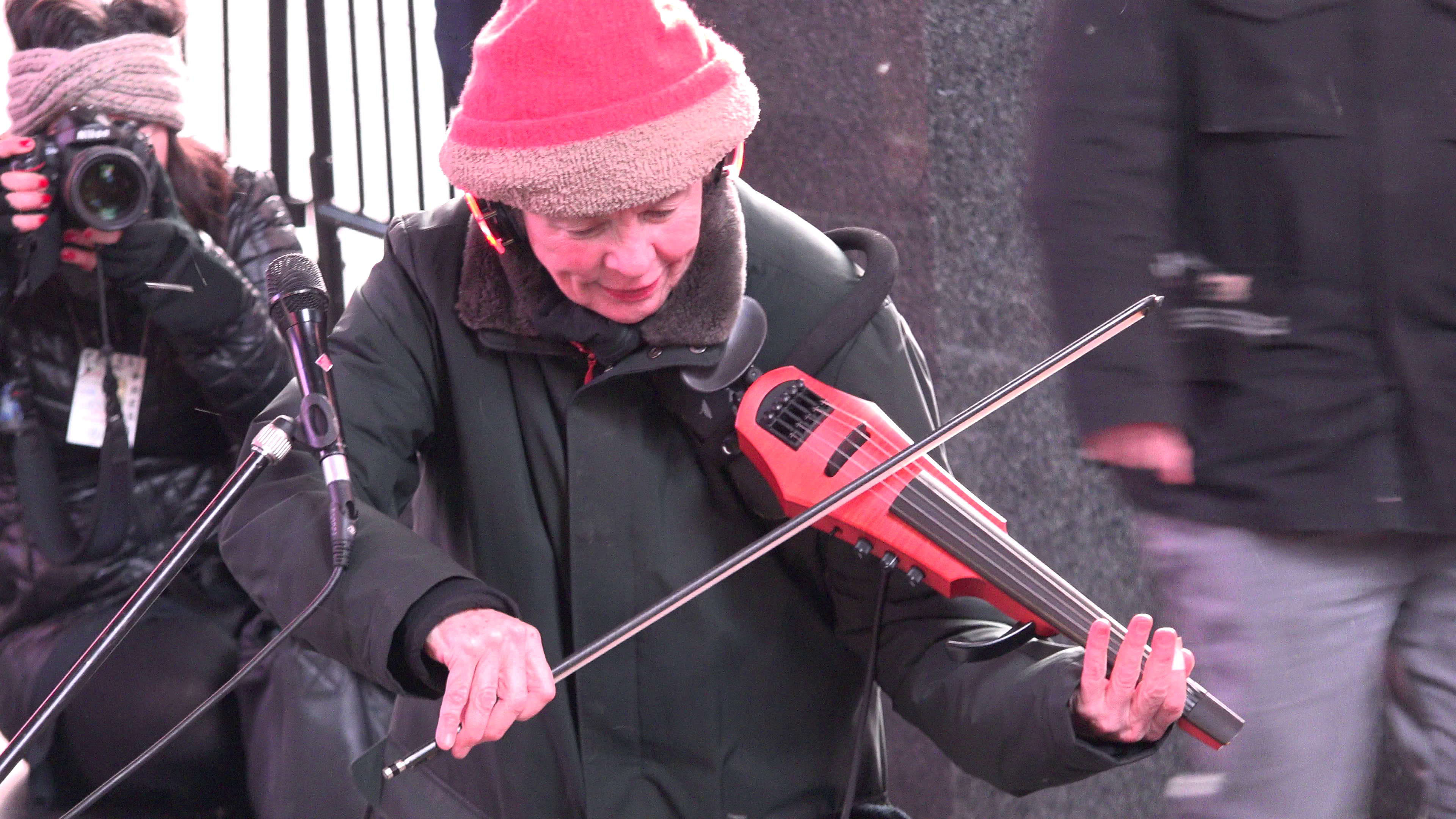 Laurie Anderson performing at her concert for dogs in Times Square